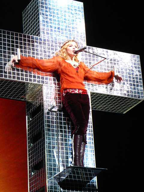 Photo taken at the concert